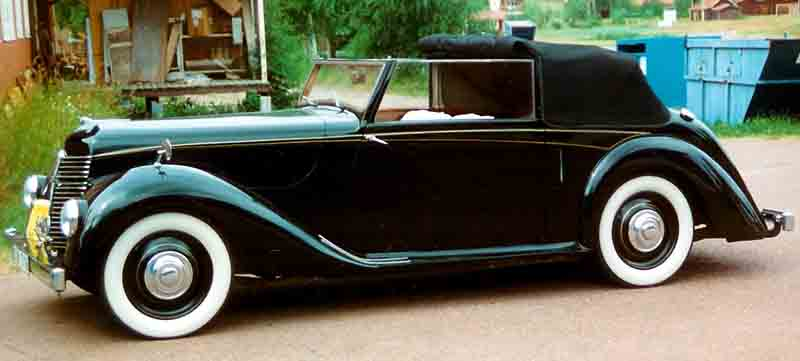 Armstrong-Siddeley Hurricane Drophead Coupé 1946